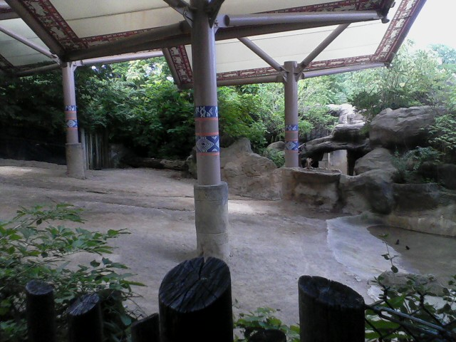 Taken by Zak Handel at the Cincinnati zoo